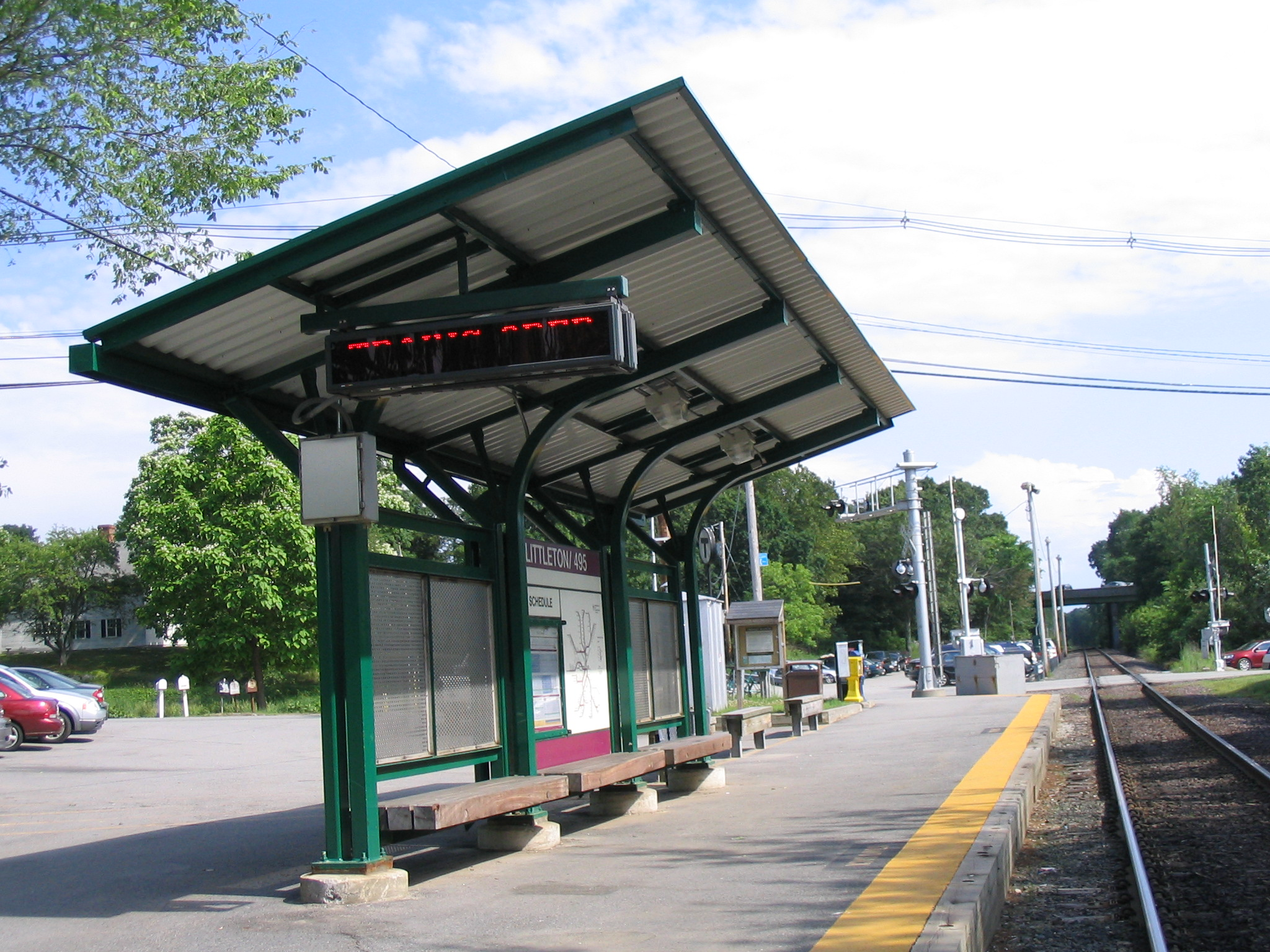 1980-built Littleton/Route 495 station on the MBTA Commuter Rail Fitchburg Line